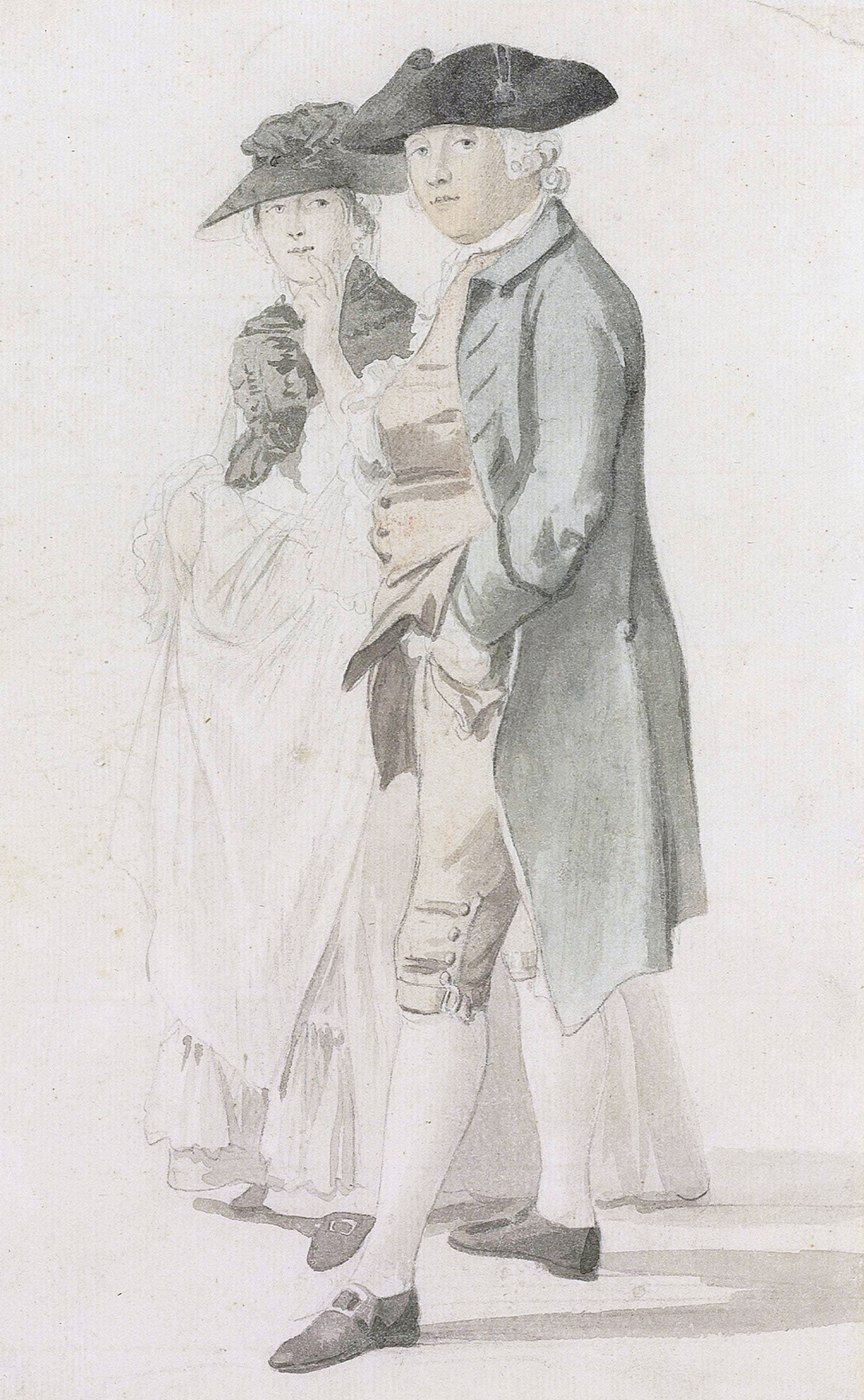 George Alexander Stevens (1710-80) and Mrs Paul Sandby (1736-1797)